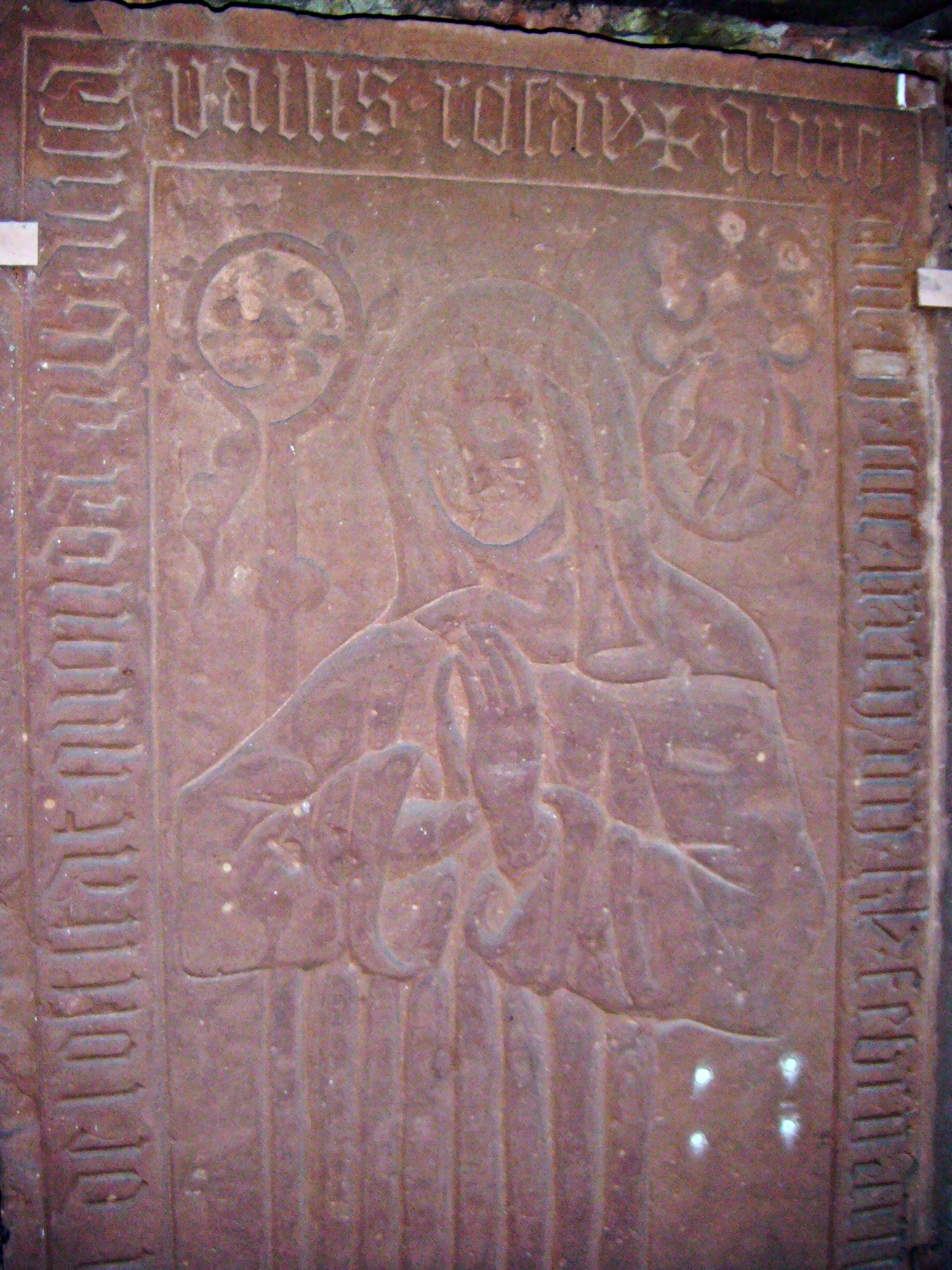 Grabplatte der Äbtissin Anna von Lustadt (+ 1485), Kloster Rosenthal, Pfalz